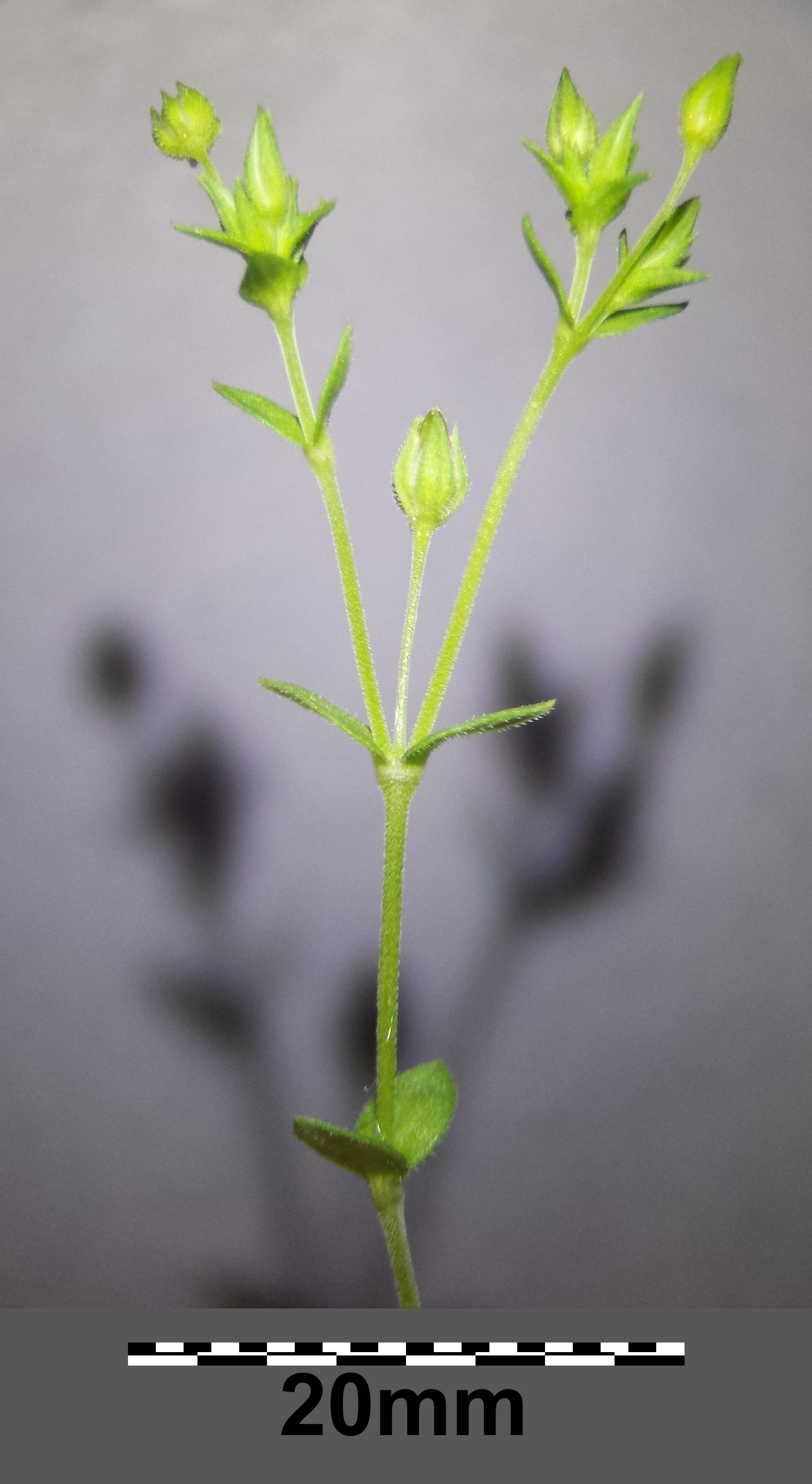 Habitus Taxonym: Arenaria serpyllifolia ss Fischer et al. EfÖLS 2008 ISBN 978-3-85474-187-9 Location: Neue Donau, Vienna-Floridsdorf - ca. 160 m a.s.l. Habitat: dry slope